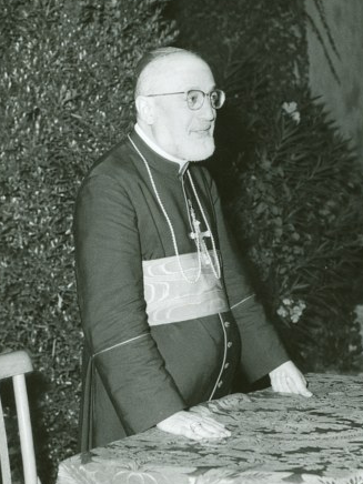 Cardinal Agagianian speaking at a missionary medical conference,1958